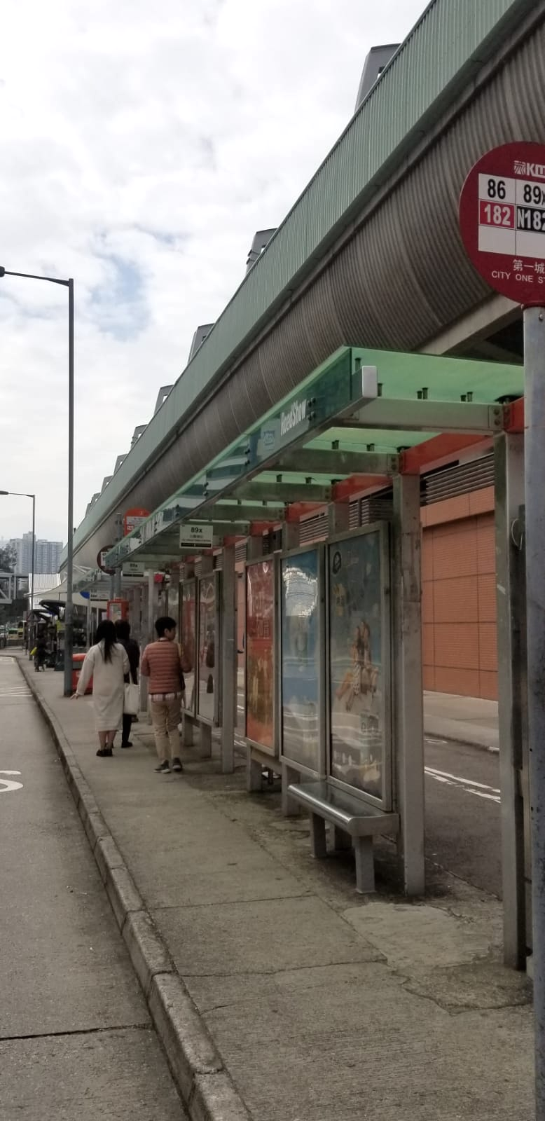 A line of bus stops near City One Station.